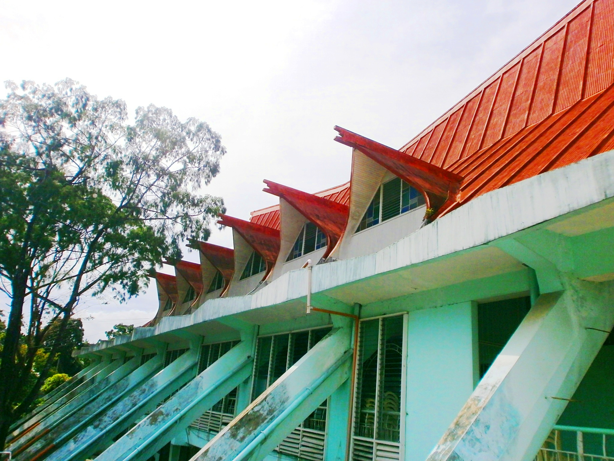 CPU Church Side Dormir Windows